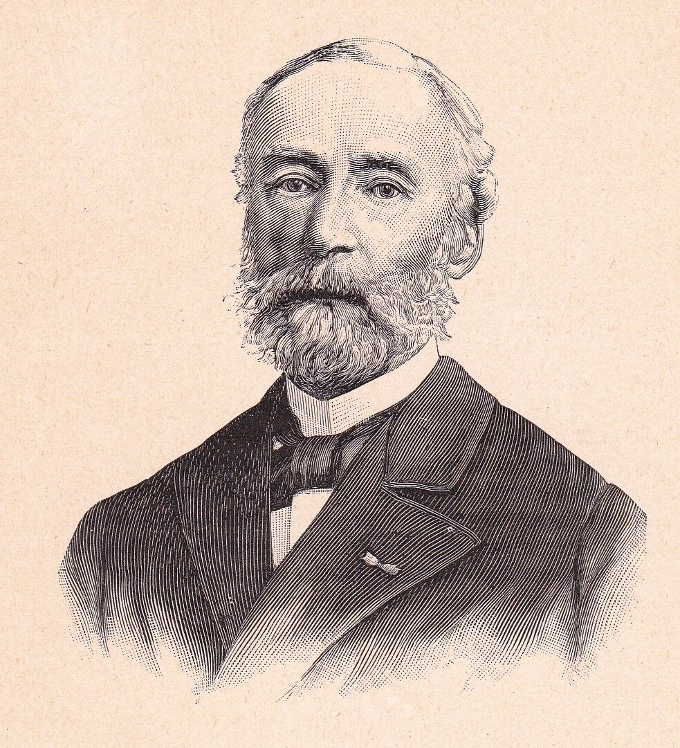 French writer and encyclopedist Gustave Vapereau (1819-1906)